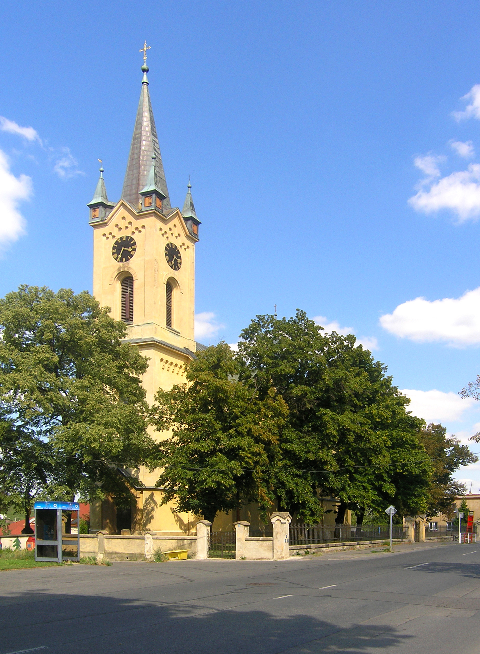 Church in Romanic Revival style in Nebušice, Prague